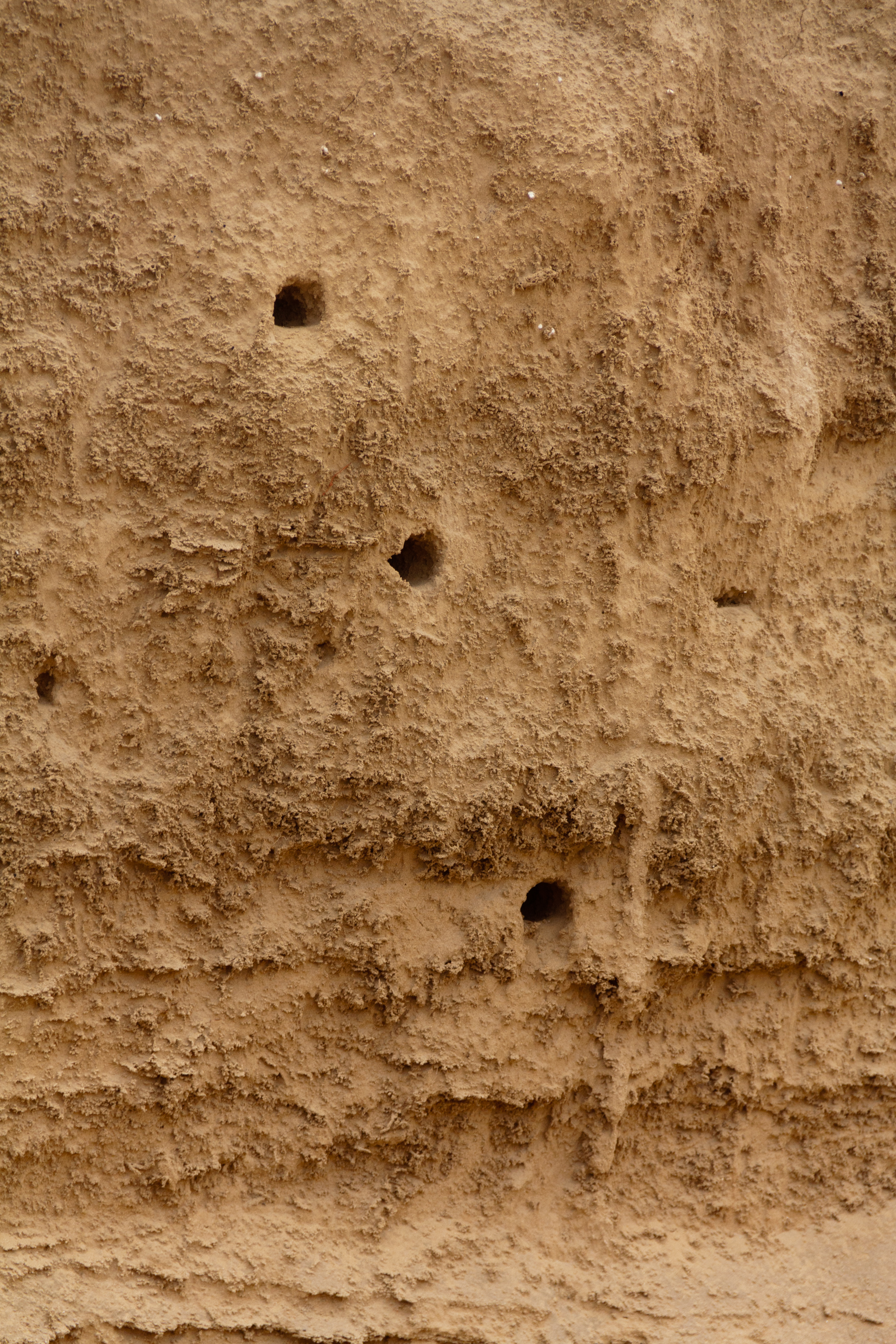 European Bee Eater nests, Tel Aviv's Northwestern Kurkar Range